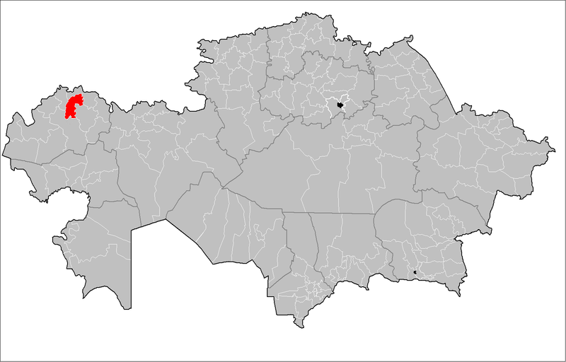 Map of the rayons of Kazakhstan. Created by Rarelibra 16:49, 3 August 2007 (UTC) for public domain use, using MapInfo Professional v8.5 and various mapping resources.